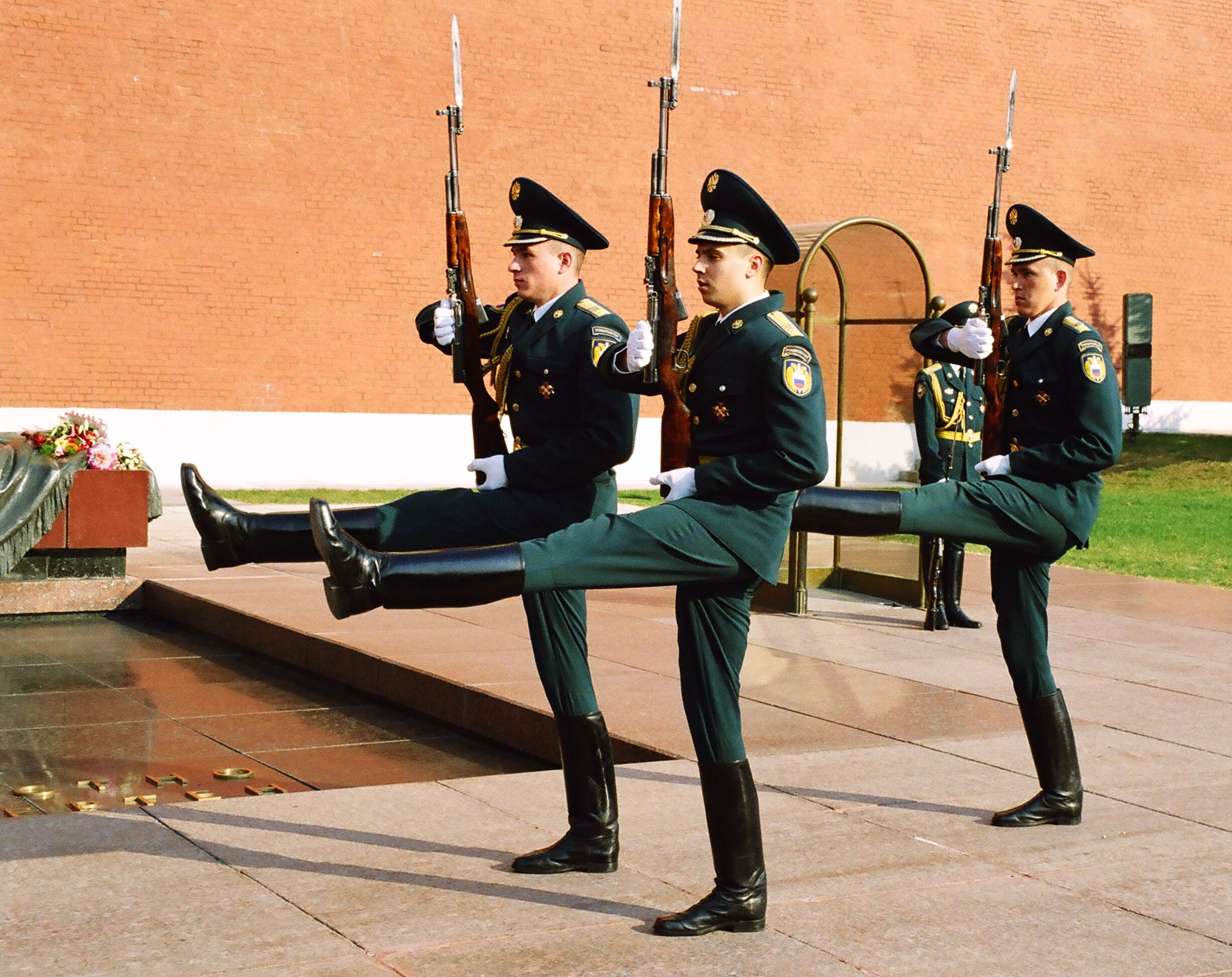 Change of Guards, Tomb of the Unknown Soldier, Moscow